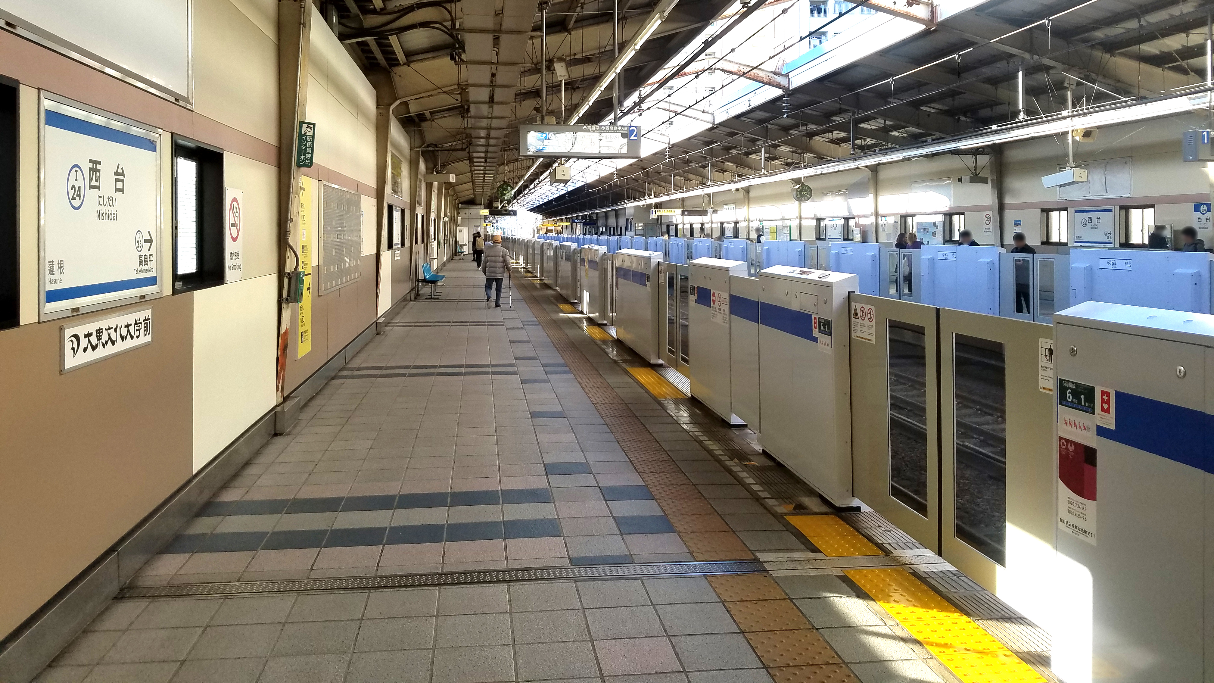 The platforms at Nishidai Station on the Toei Mita Line in Itabashi city, Tokyo, Japan